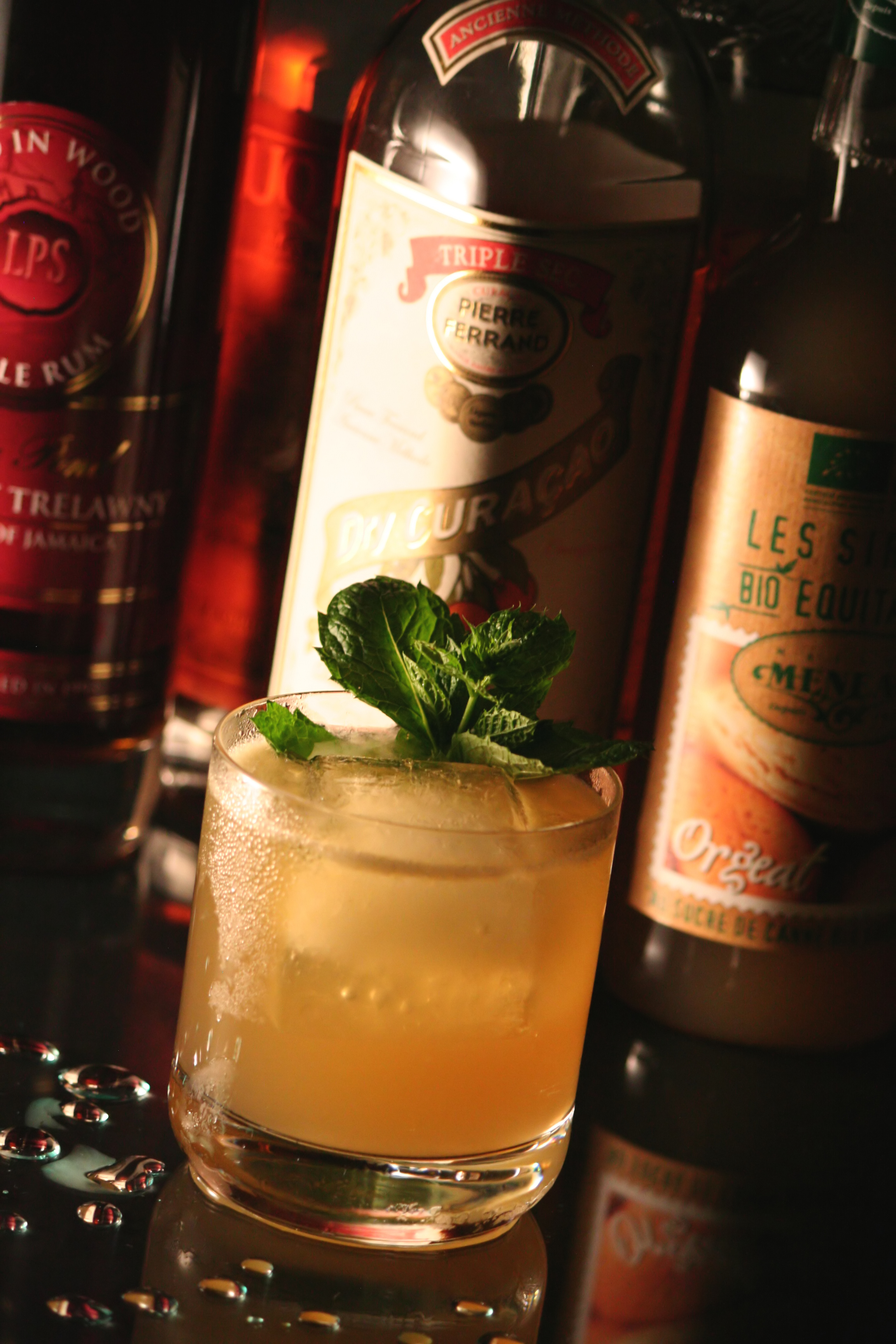 Mai Tai mixed in a traditional way with Long Pond Distillery Trelawny 17y, Duquesne Eleve Sous Bois, Pierre Ferrand Orange Curacao, Meneau Orgeat, cane sugar and lime juice.